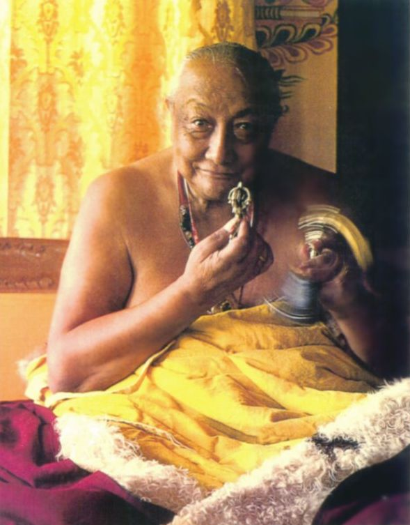 personal gift of photo;anonymous photographer